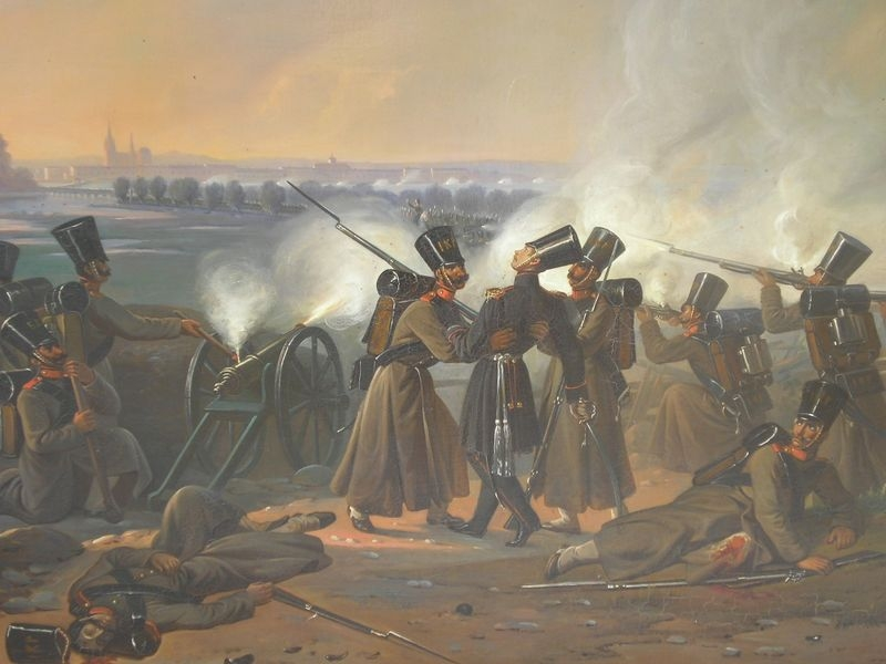 Battle of Tykocin 1831